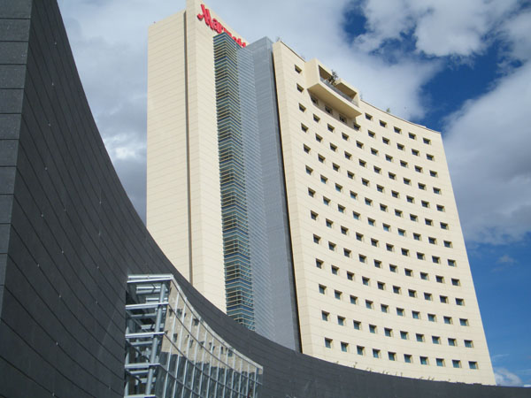 A high class hotel in the city located near Altaria mall.